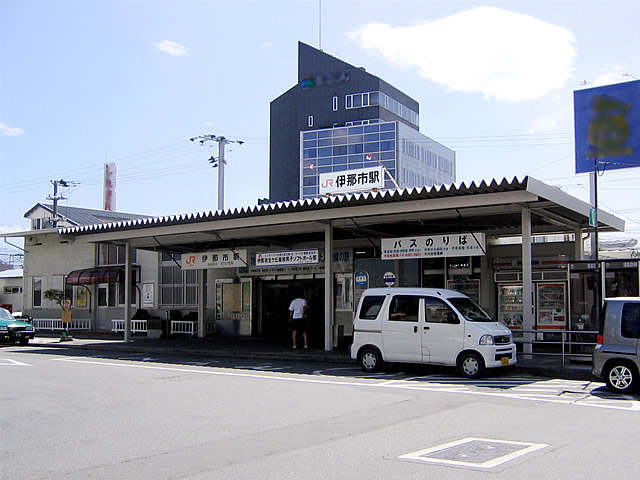 Inashi Station, on 15 August 2005